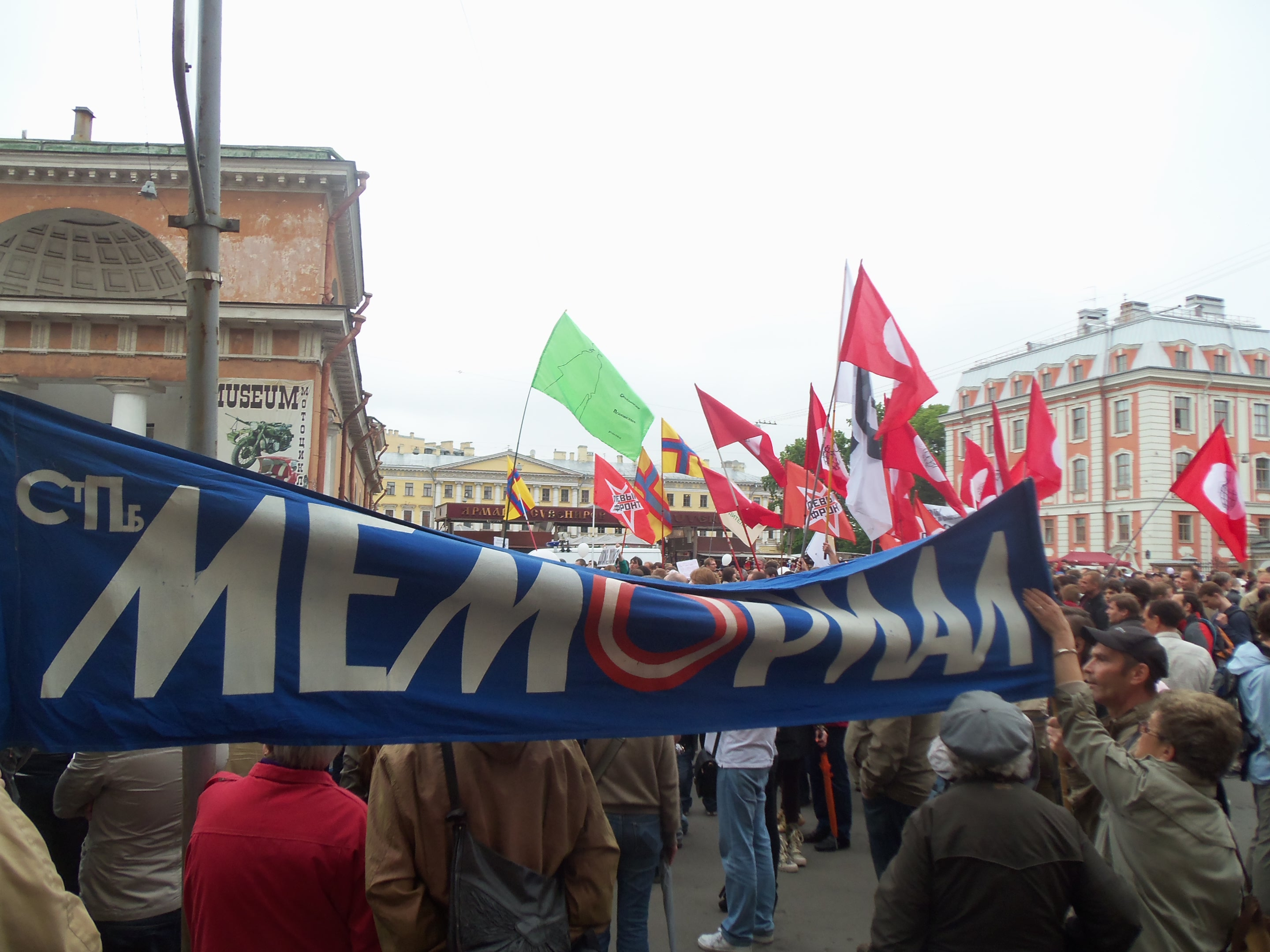 The meeting at Konyushennaya Sqaure on 12 June 2012